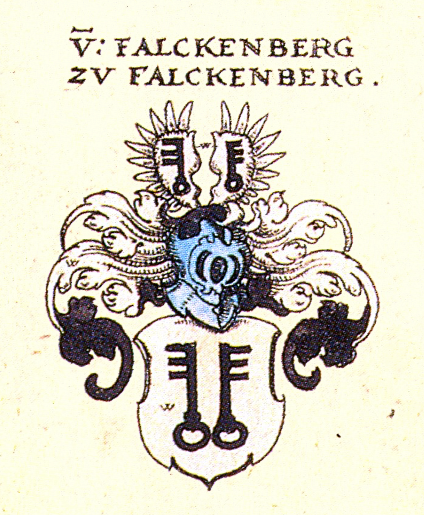 Coat of arms of Falkenberg (Hesse)